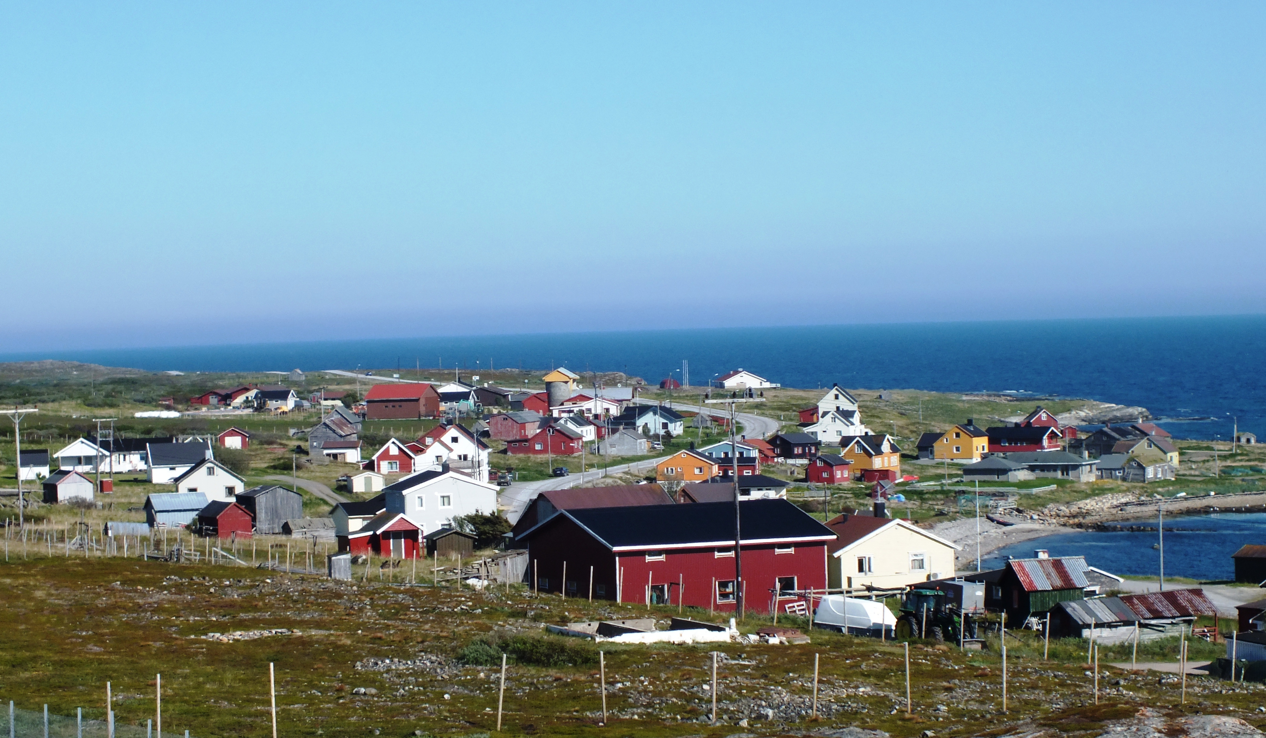 Kiby, a village outside Vadsø, seen from the airport